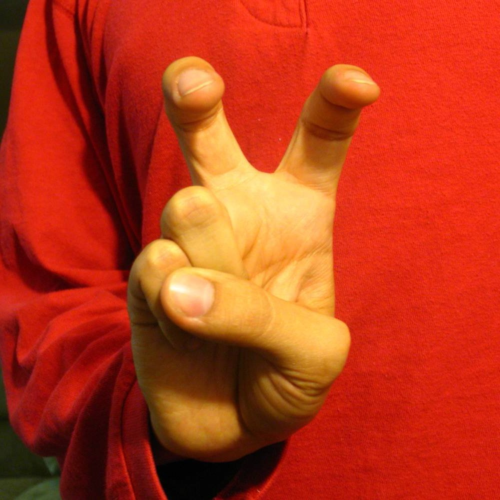 This image is one of a set of images depicting the different handshapes used in American Sign Language. For information on this image and the others, see the desciption page there.